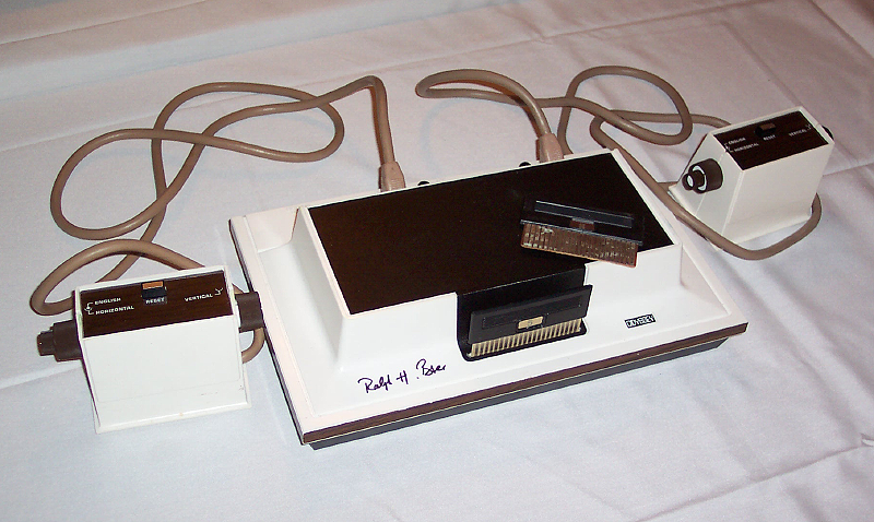 Autographed Magnavox Odysssey console. I am the author and source of this photo. Taken from my personal collection of photos from my museum display at the 2007 Midwest Gaming Classic. This photo is free to use as long as credits to Martin Goldberg and/or Electronic Entertainment Museum (E2M), are maintained.